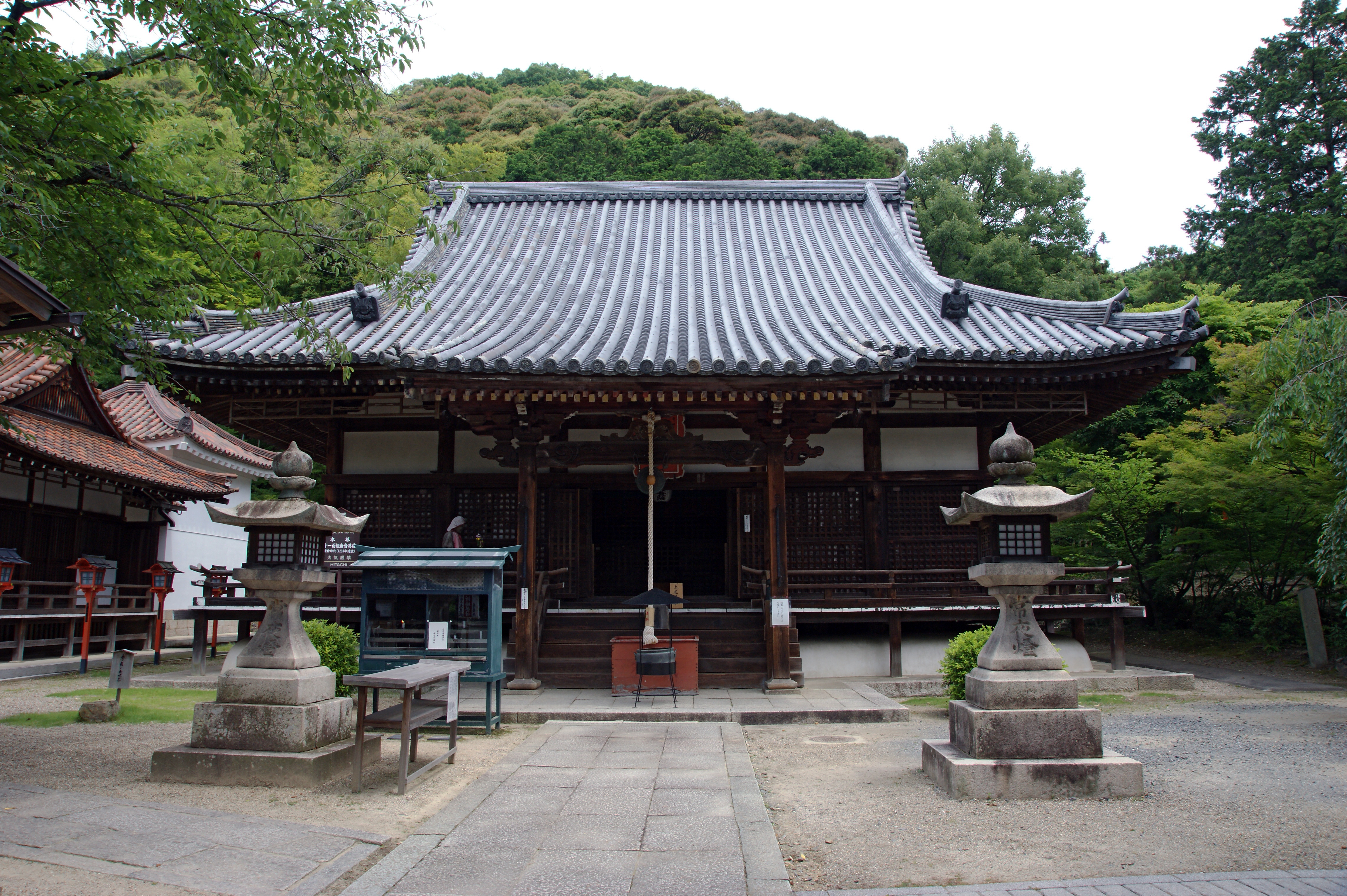 Hoshakuji in Oyamazaki-cho, Otokuni-gun, Kyoto prefecture, Japan